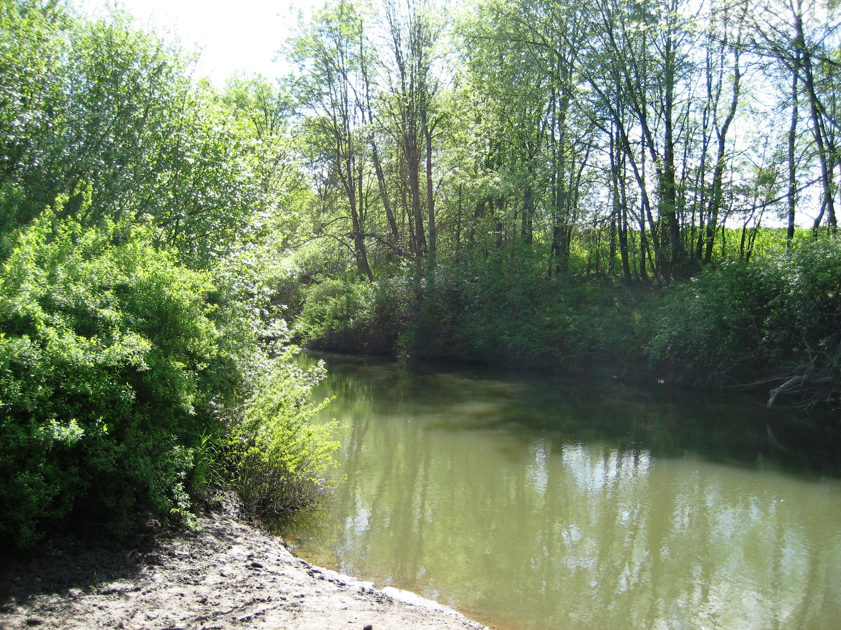 Tualatin River at Rood Bridge Park in Hillsboro, Oregon, USA